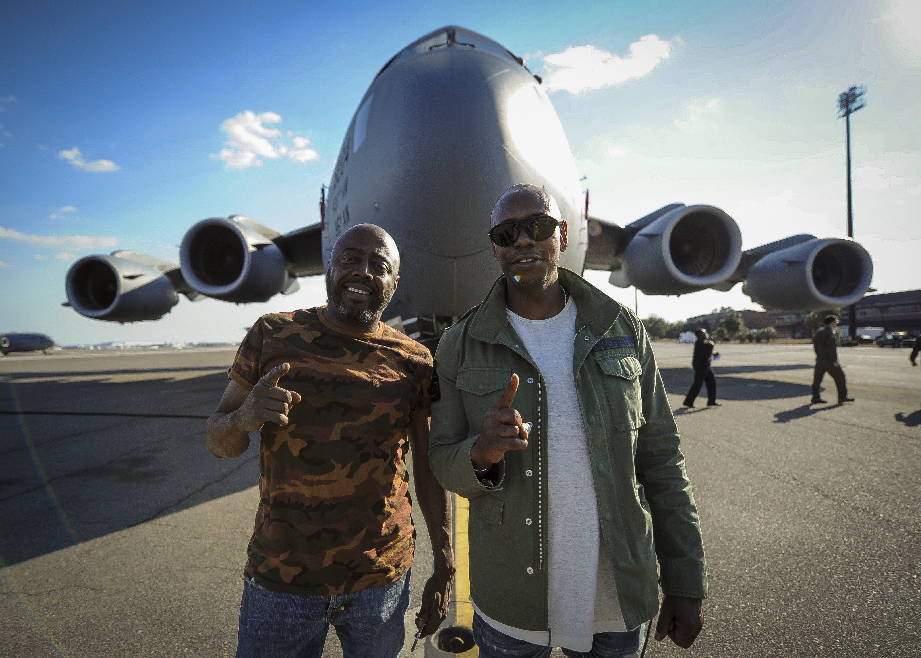 Dave Chappelle (right) and Donnell Rawlings, actors and comedians, stand in front of a C-17 Globemaster III Feb. 2, 2017, at Joint Base Charleston, S.C. Chappelle was in town for his stand-up comedy show when he made the visit to see service members and federal civilians at the base. (U.S. Air Force photo/Senior Airman Tom Brading)